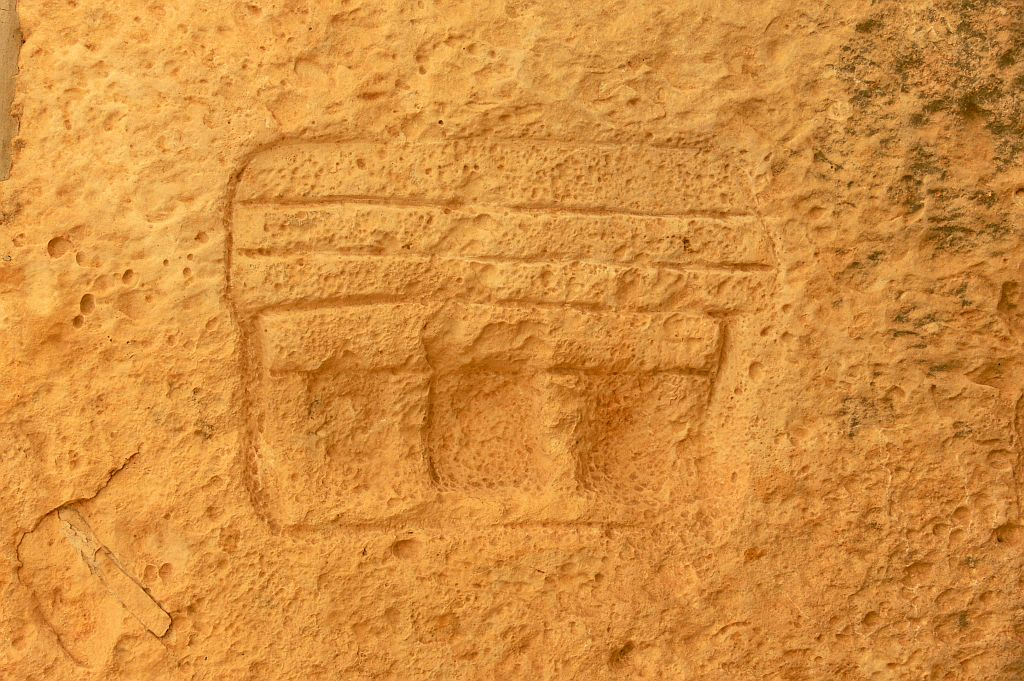 Drawing of a stone age temple in the central temple of Mnajdra, Qrendi, Malta